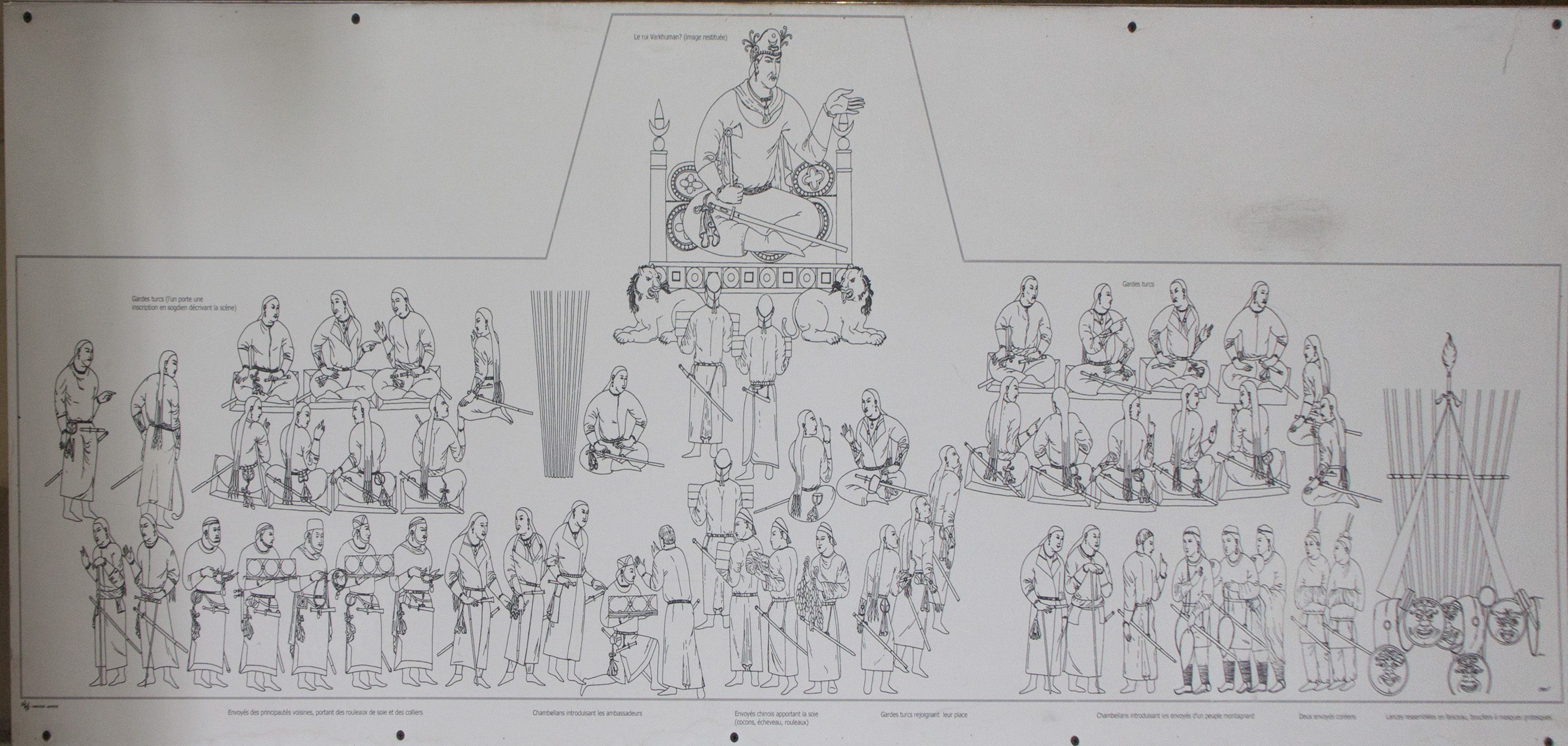 Afrasiyab paintings